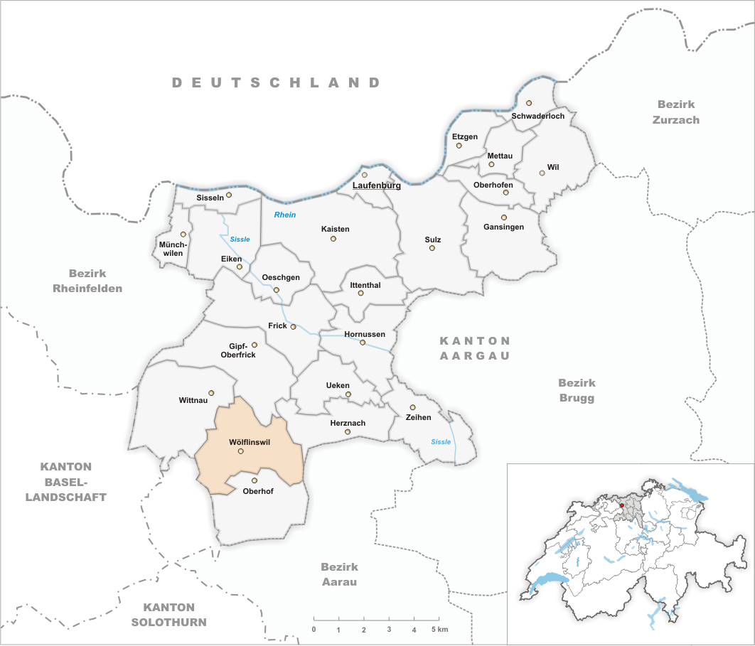 Municipality Wölflinswil